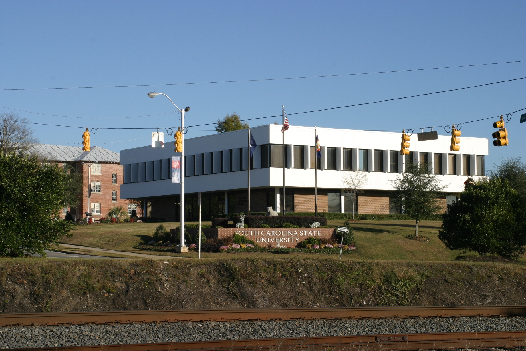 Domna Administration Building (in front), Lowman Hall (background).